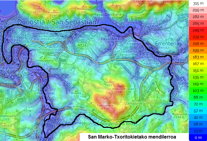 Topographic map showing the San Marko-Txoritokieta Range.